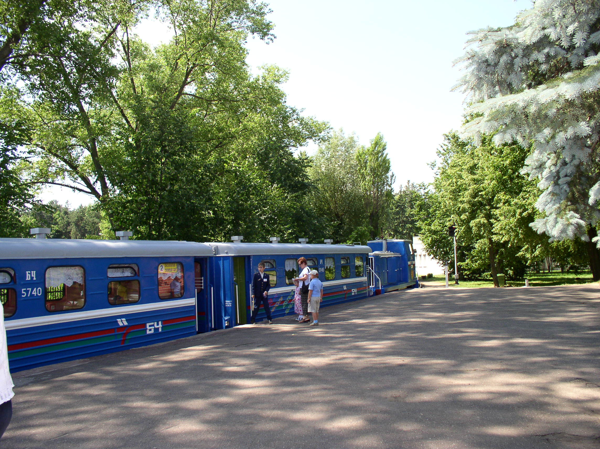 Children Railroad, Minsk, Belarus.